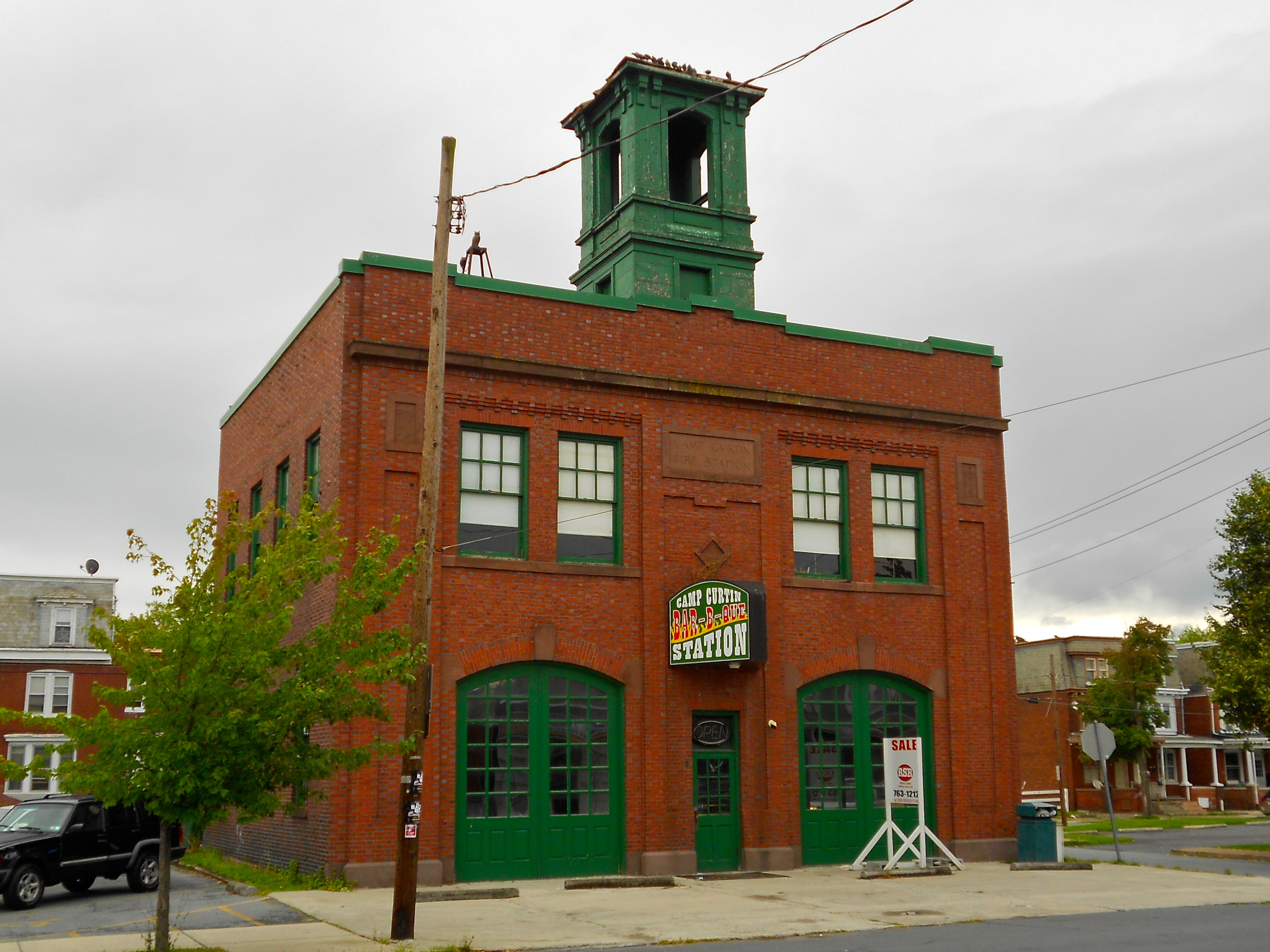 Camp Curtin Fire Station, listed on the NRHP on August 11, 1981, at 2504 North 6th Street, Harrisburg, Pennsylvania.